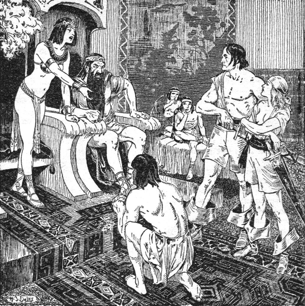 Illustration of a scene in Robert E. Howard's "Red Nails": this picture was first published on p. 205 of Weird Tales (August/September 1936, vol. 28, no. 2).